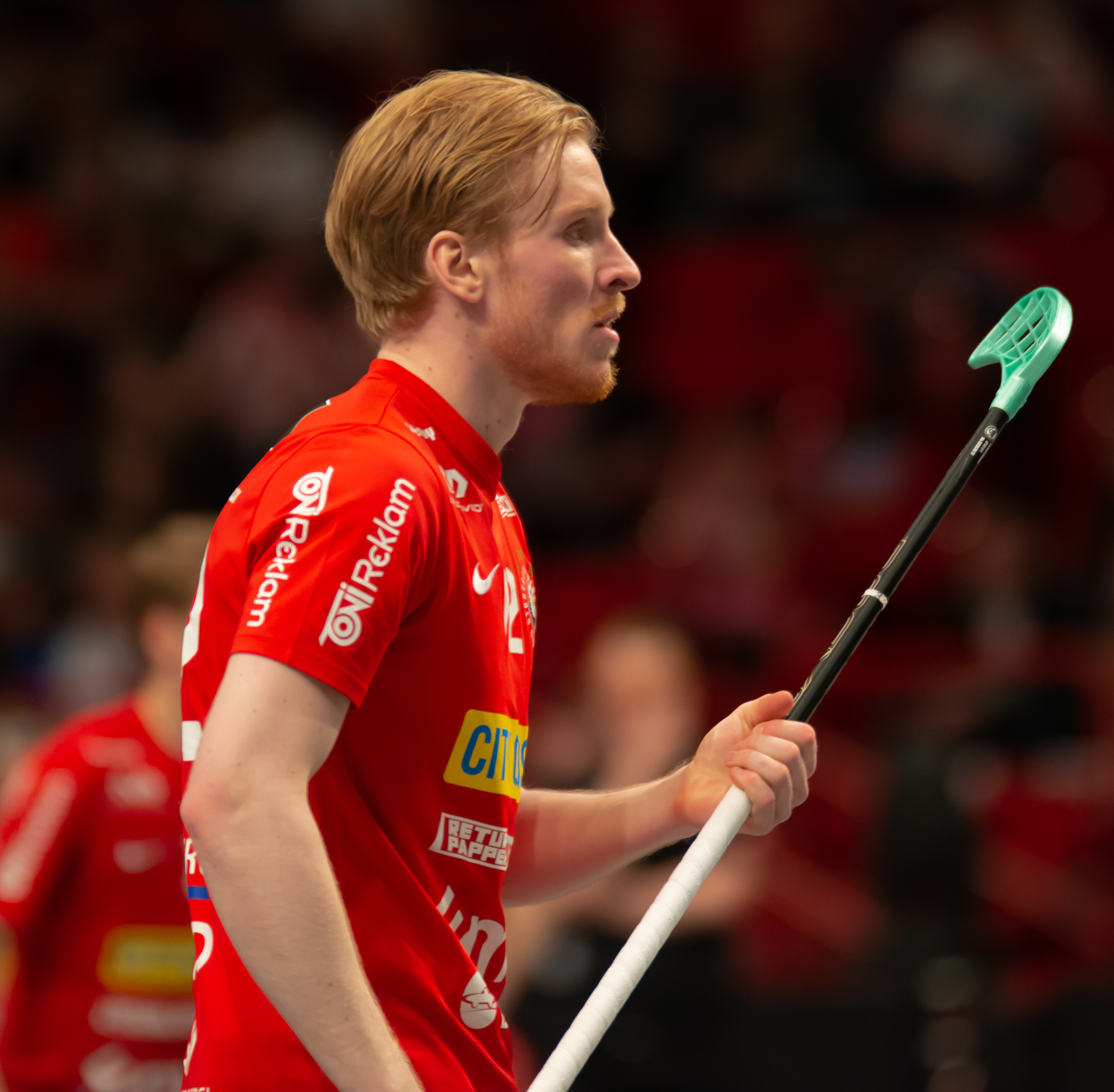 Floorball Mens Sweden National final 2018